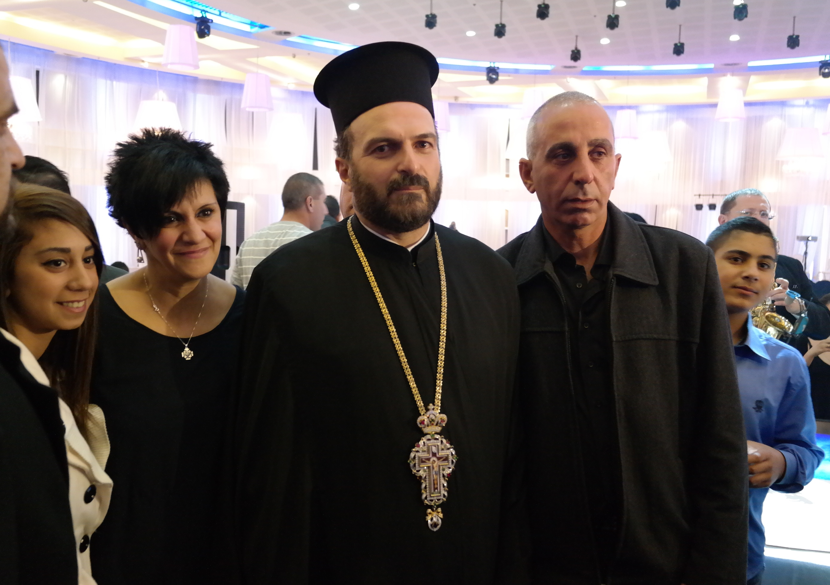 Father Gabriel Naddaf poses for a picture with a christian arab family in Nazeret Illit